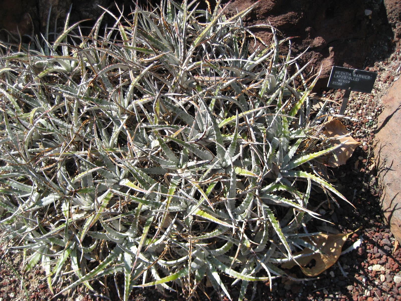 Photographed at Huntington Gardens (Los Angeles) in March